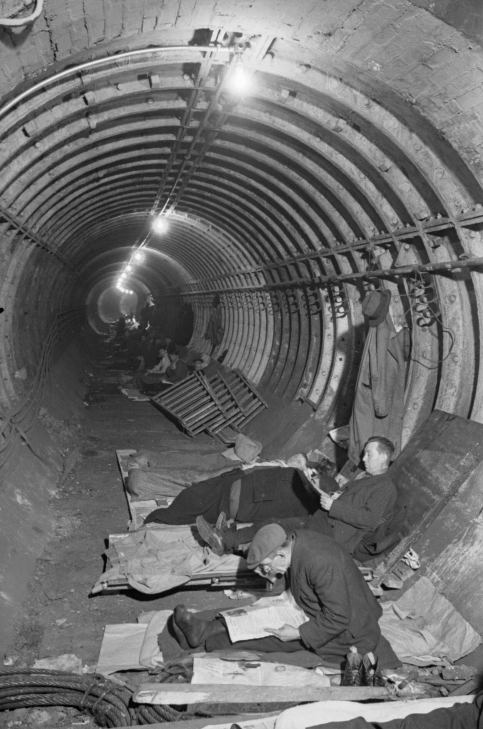 Londoners spending the night in a tunnel of the London Underground network, probably at Aldwych, in November 1940. Shelterers read the paper and prepare for sleep in a dimly-lit tunnel of the London Underground network, probably at Aldwych in November 1940. More shelterers can be seen further down the tunnel, past a pile of ladders visible on the left.